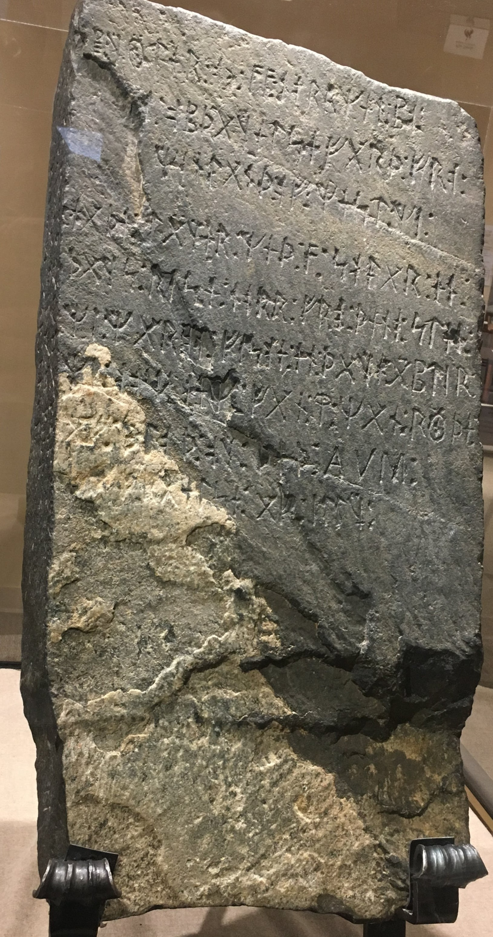 The Kensington Runestone on display in Alexandria Chamber of Commerce and "Runestone Musuem" and Alexandria, Minnesota, United States